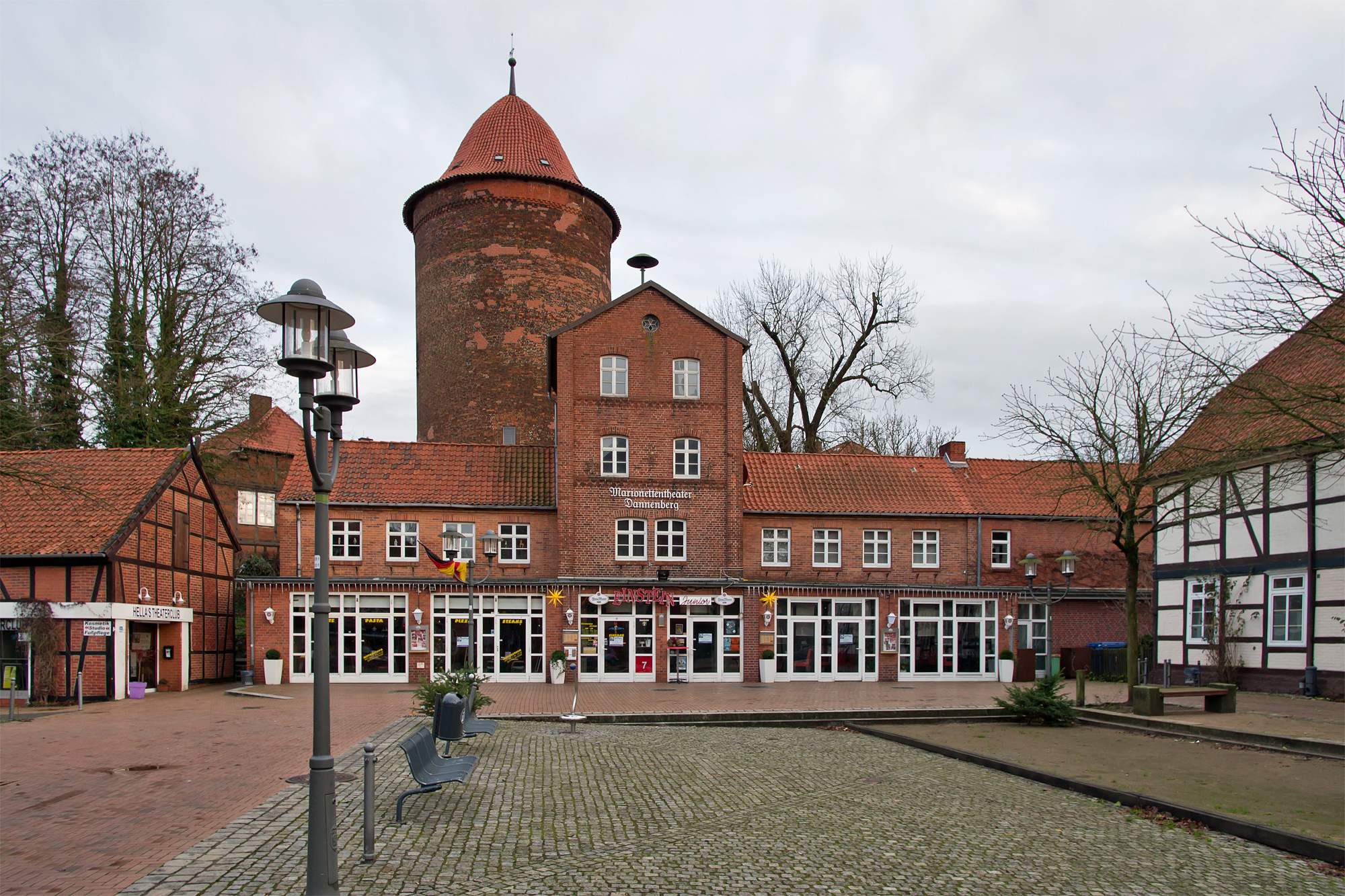 Location "Kuhmarkt" in Dannenberg (Elbe) with former firefighter building and medieval tower "Waldemarturm".